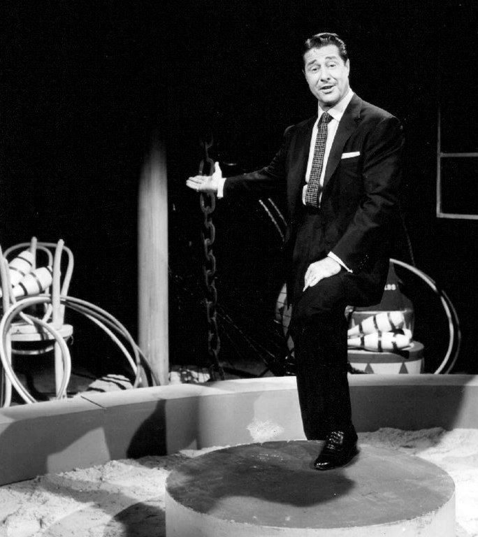 Publicity photo of Don Ameche as the host of the television program International Showtime.